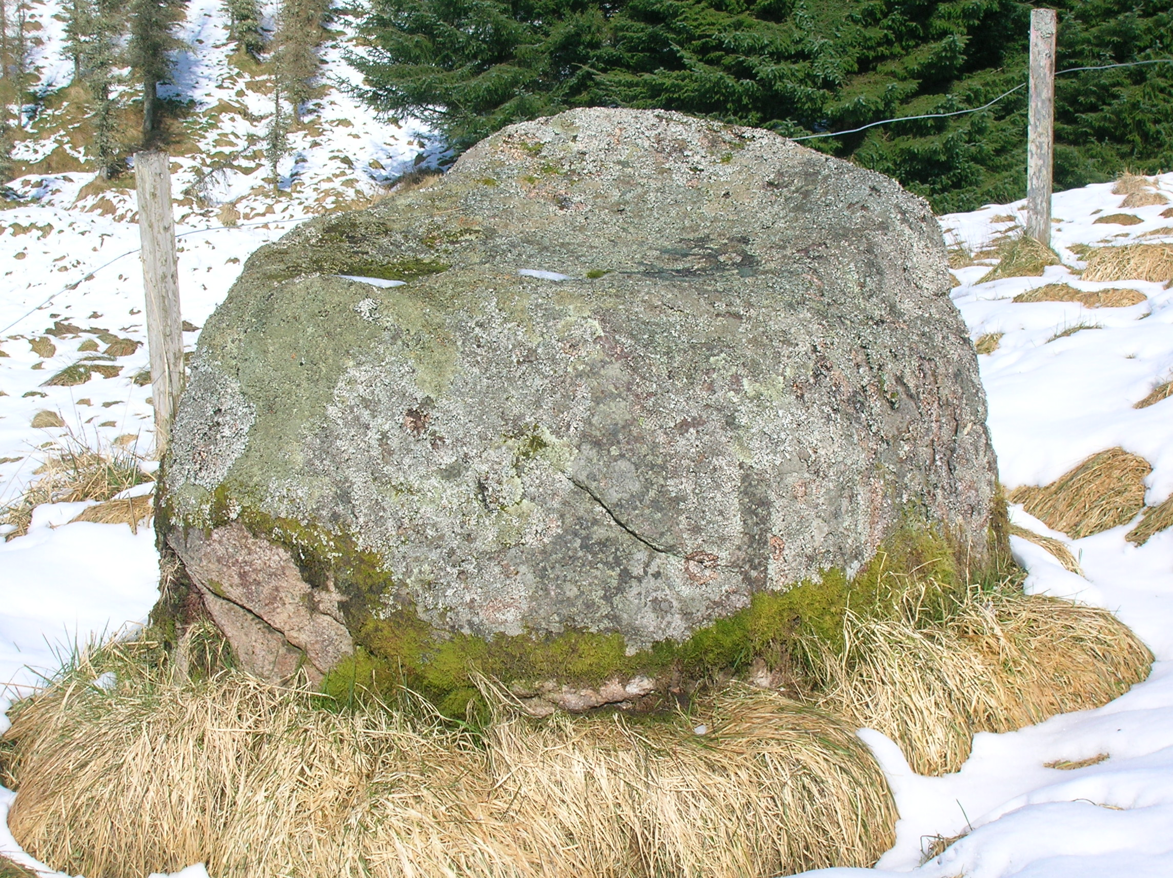 The Gowk Stane, Low Overmuir, Darvel, East Ayrshire, Scotland.